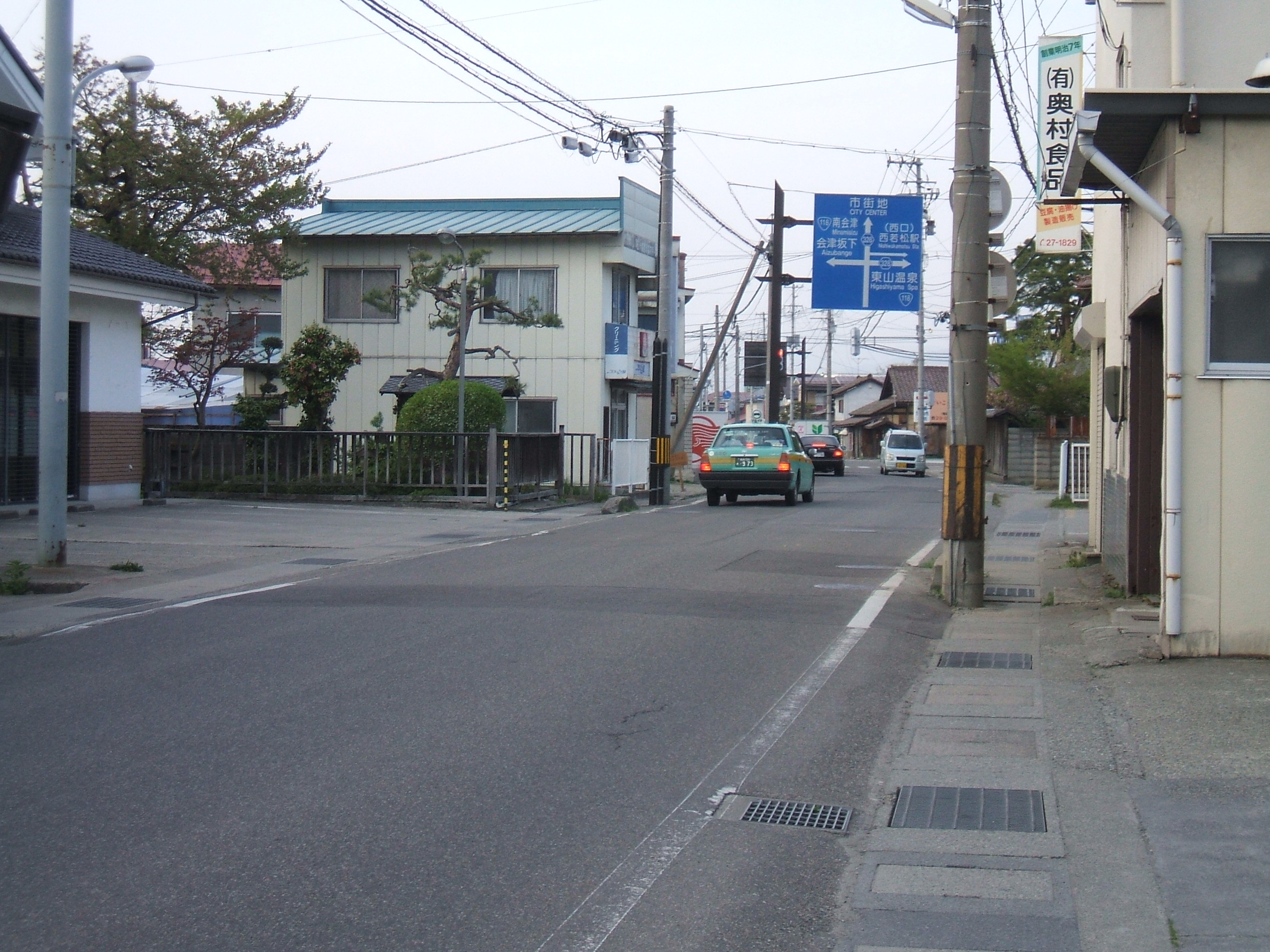 This is a landscape of Zaimokumachi 2-chome, Aizuwakamatsu, Fukushima.